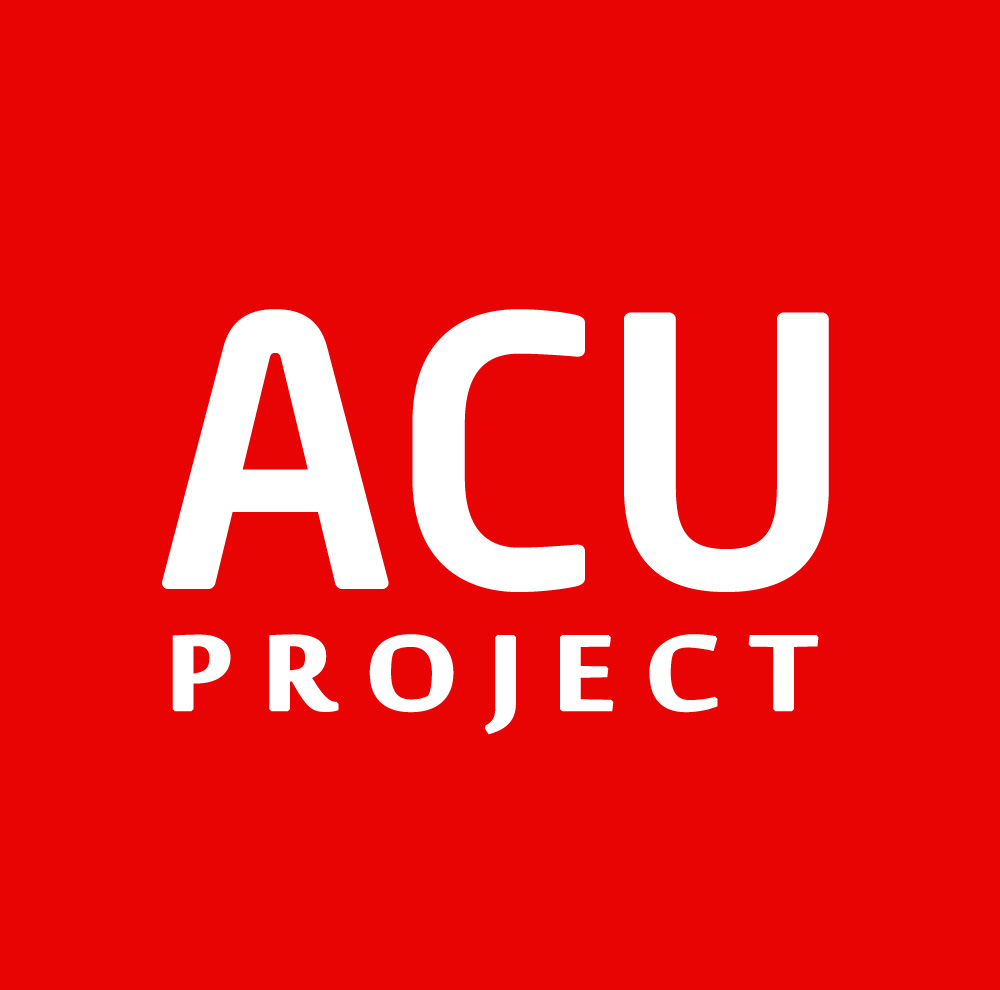 logo of ASEAN Cyber University (ACU) Project.